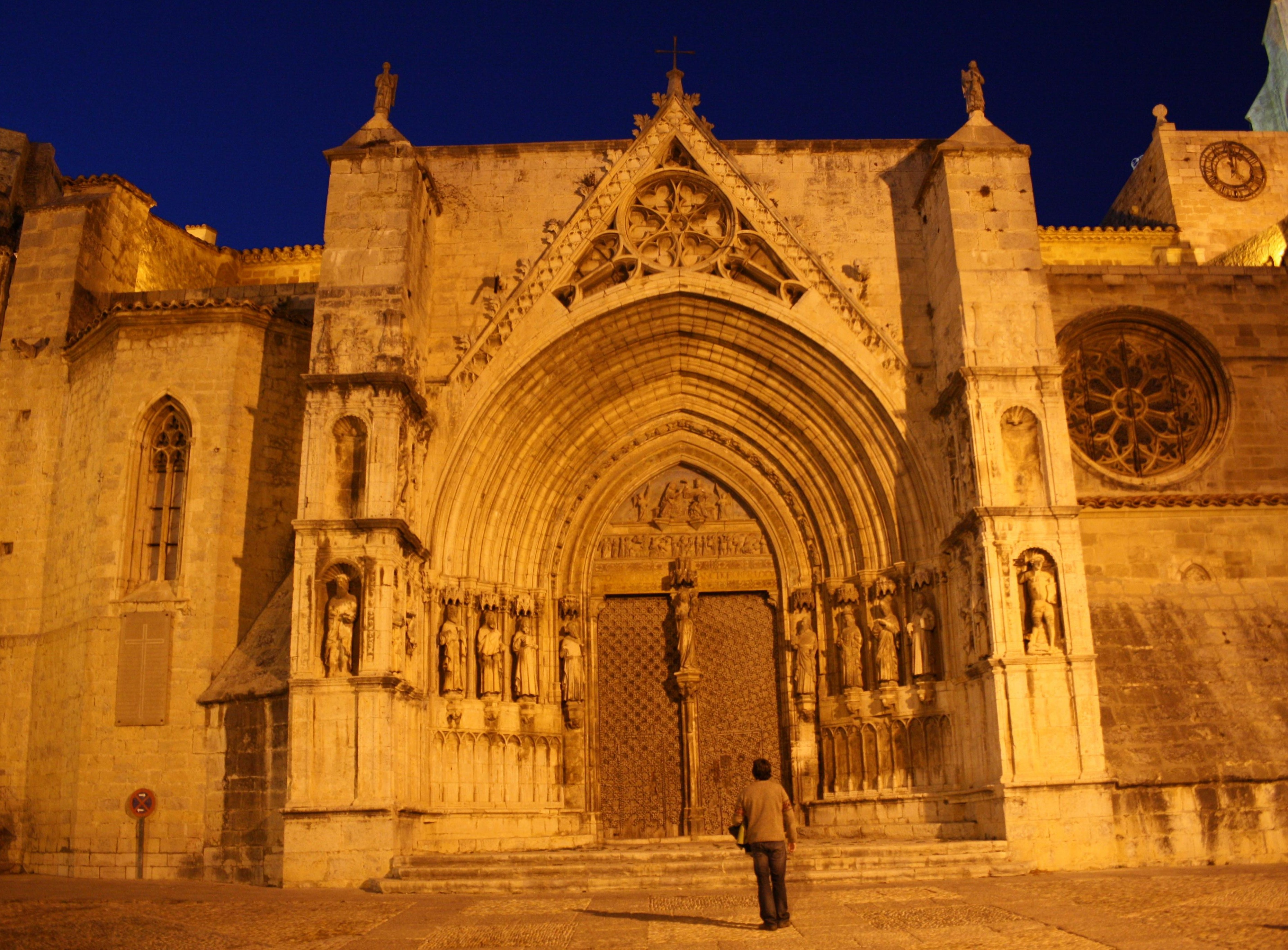 Door of the Church of Santa María la Mayor at blue hour, Morella, Spain